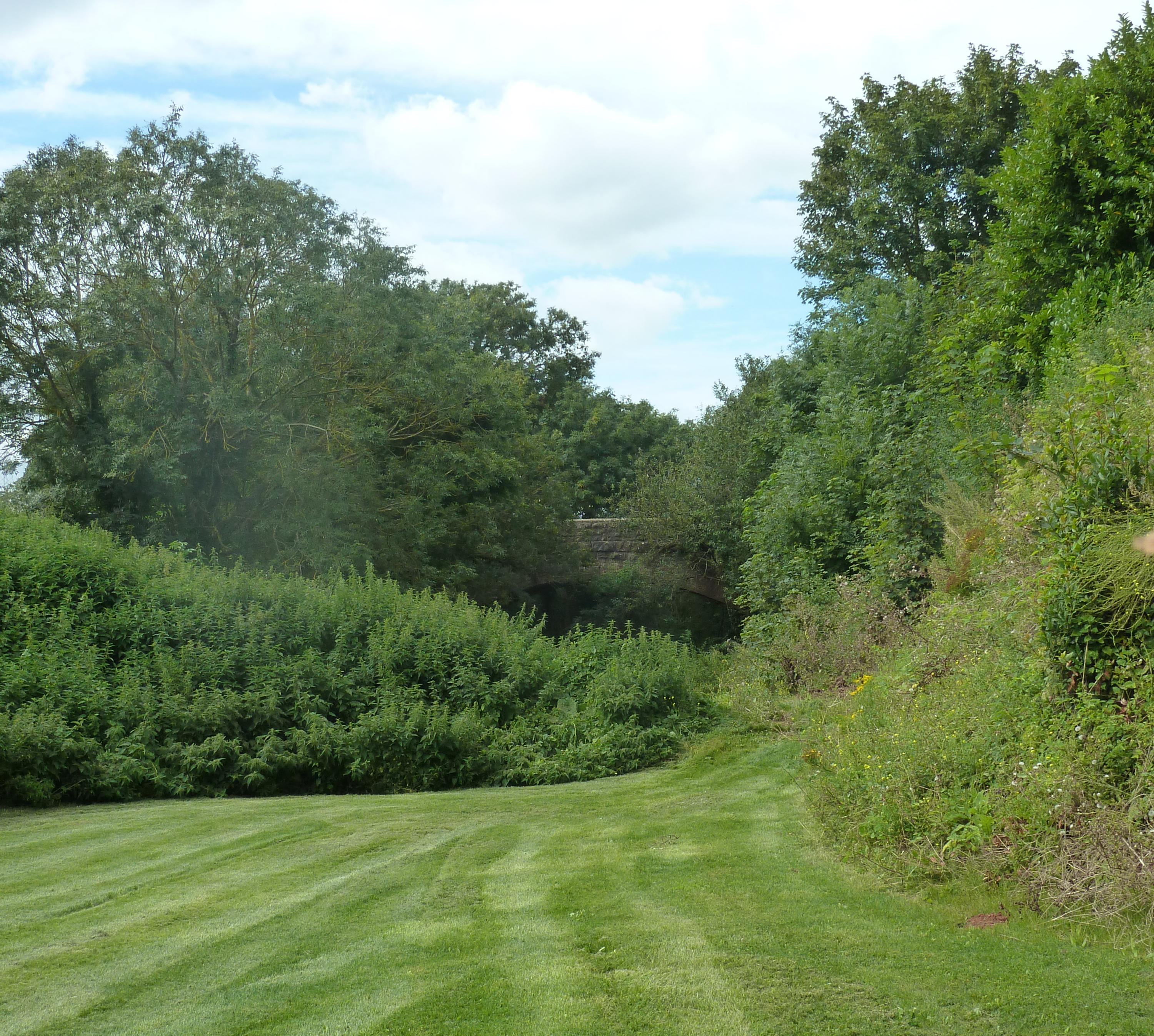 Old railway bridge leading to Portskewett Pier railway station